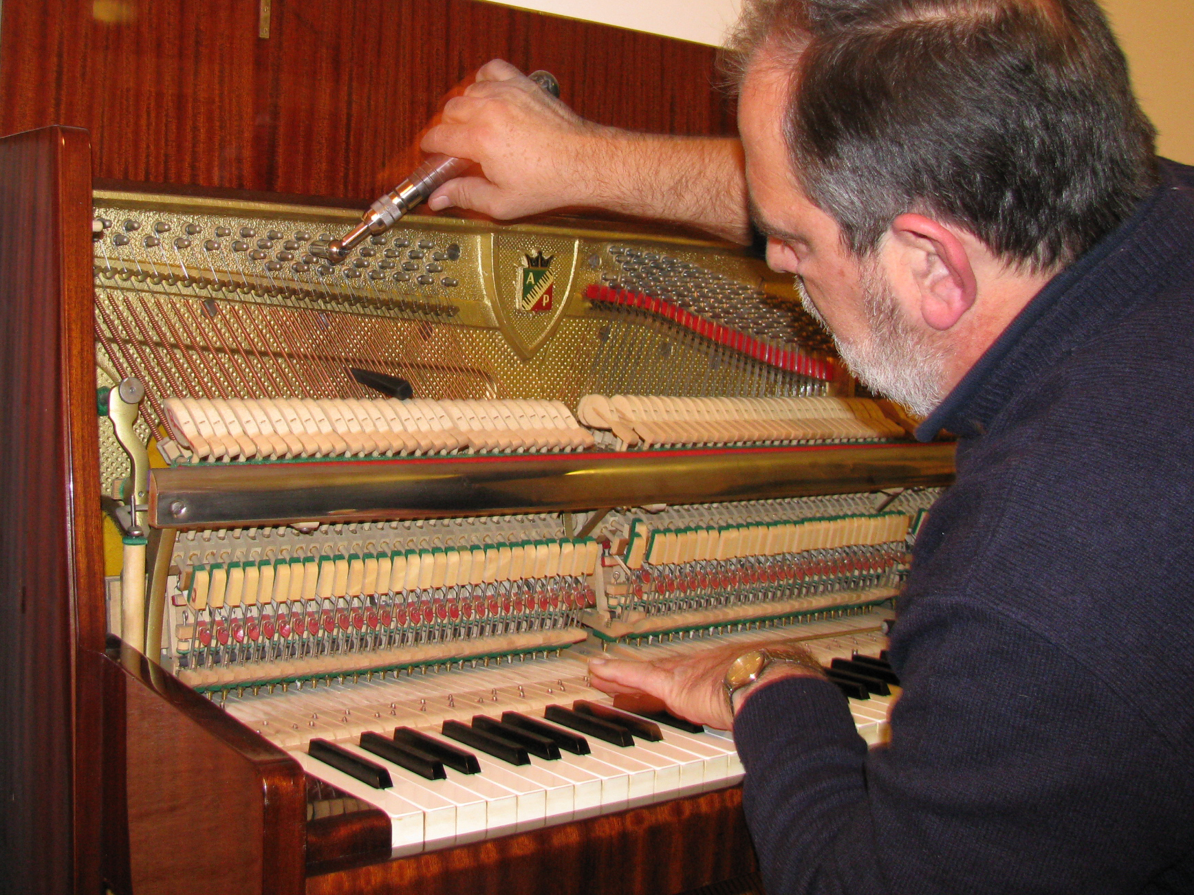 Piano tunning